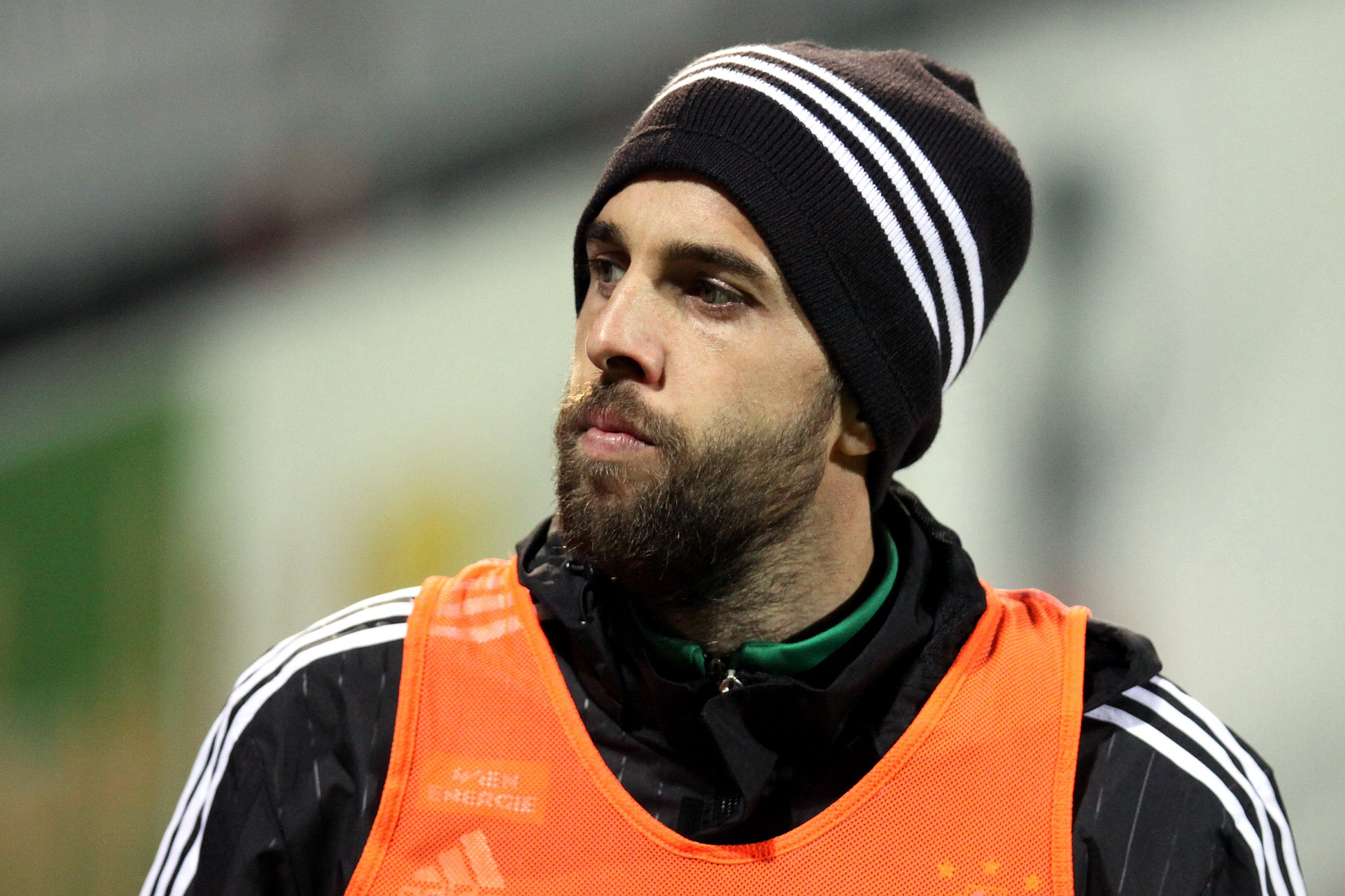 Match of the Austrian Football Bundesliga – SV Mattersburg (green shirts) vs. SK Rapid Wien (white shirts) 1-6 (0-5) at 2015-11-21 in Pappelstadion, Mattersburg – The photo shows Tomi Correa (SK Rapid Wien).